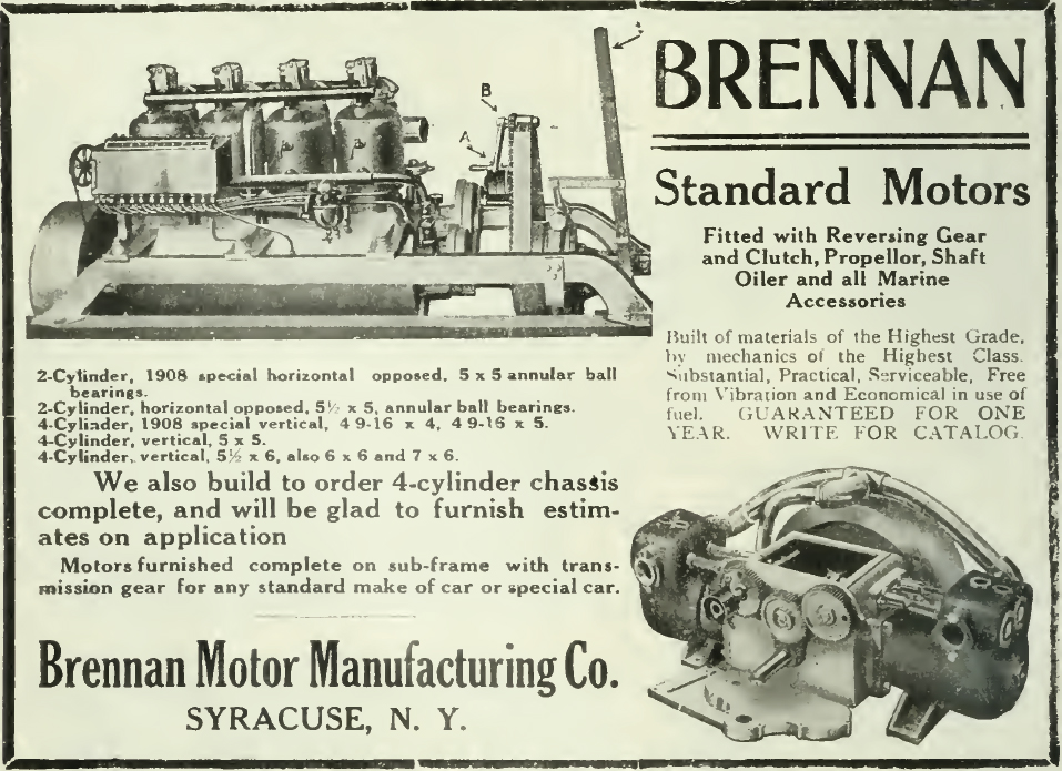 Brennan Motor Manufacturing Co. - Standard motors - Syracuse, New York - 1908